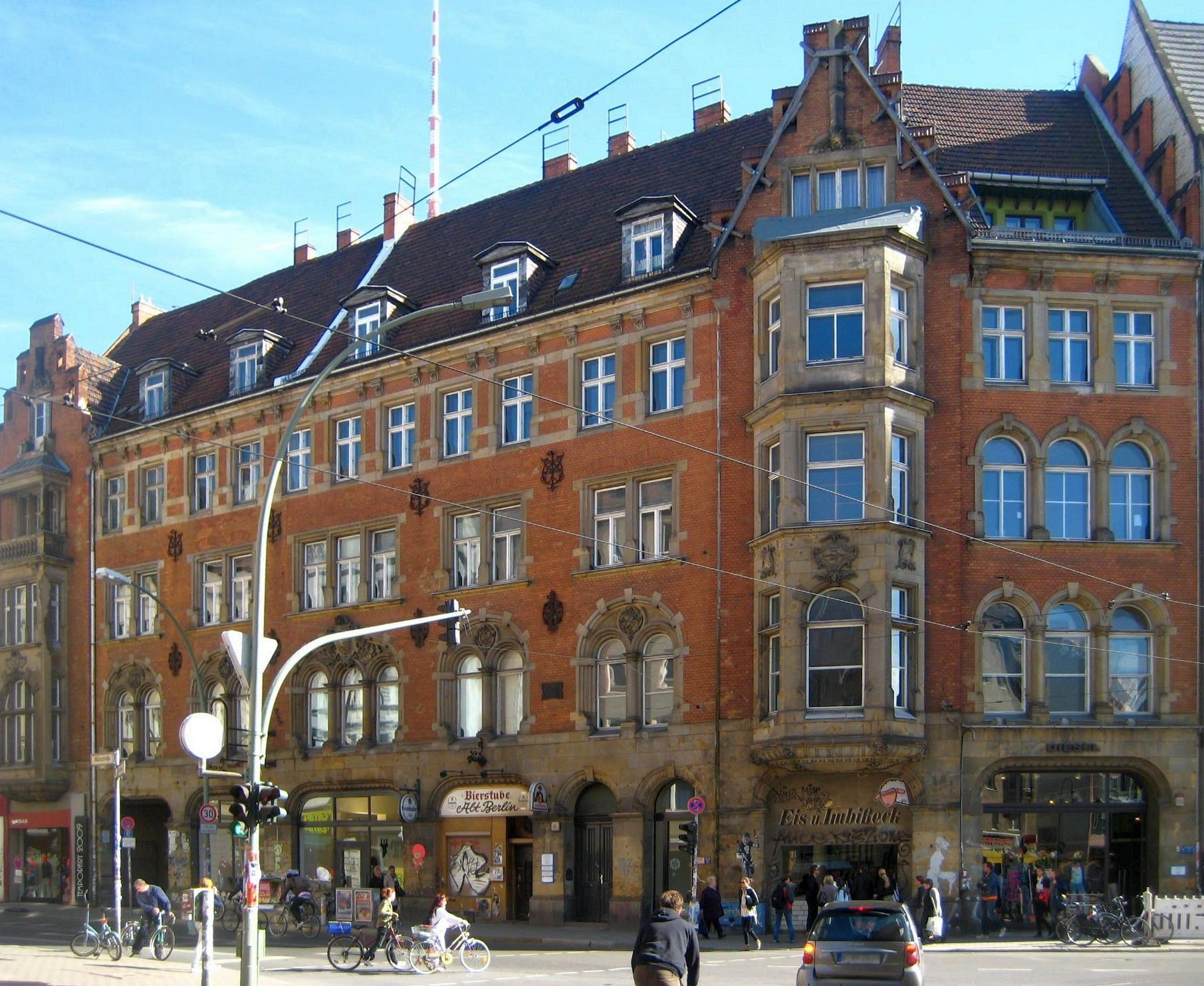 Residential and commercial building Münzstraße No. 21/23 in Berlin-Mitte. It was built from 1891 to 1893 to a design by the architects Poentsch & Bohnstedt. The building has been designated as a historic landmark.